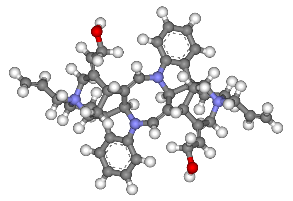 Ball-and-stick model of alcuronium. Created using Accelrys DS Visualizer Pro 1.6 and GIMP.